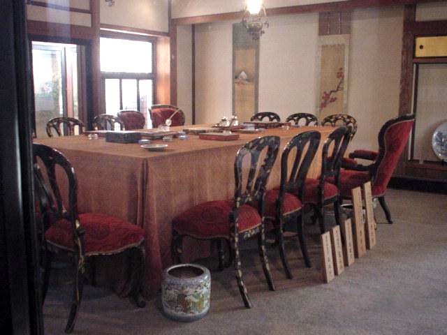 The interior of the Shunpanrou hall in Shimonoseki where the Treaty of Shimonoseki was signed on April 17, 1895.